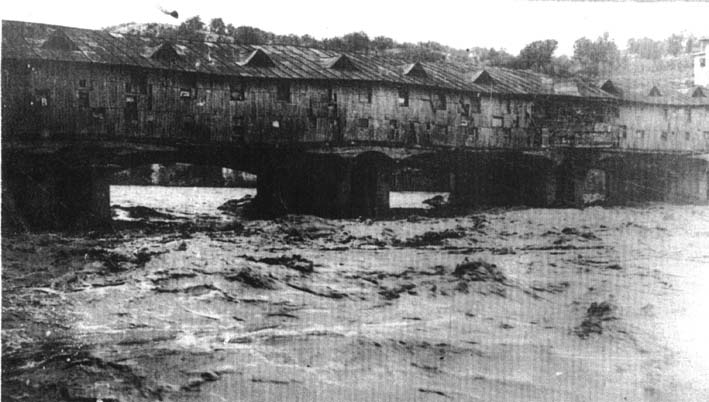 The original Covered bridge built by Kolyo Ficheto in Lovech, Bulgaria; image taken before 1925 when the bridge was burnt down in fire.